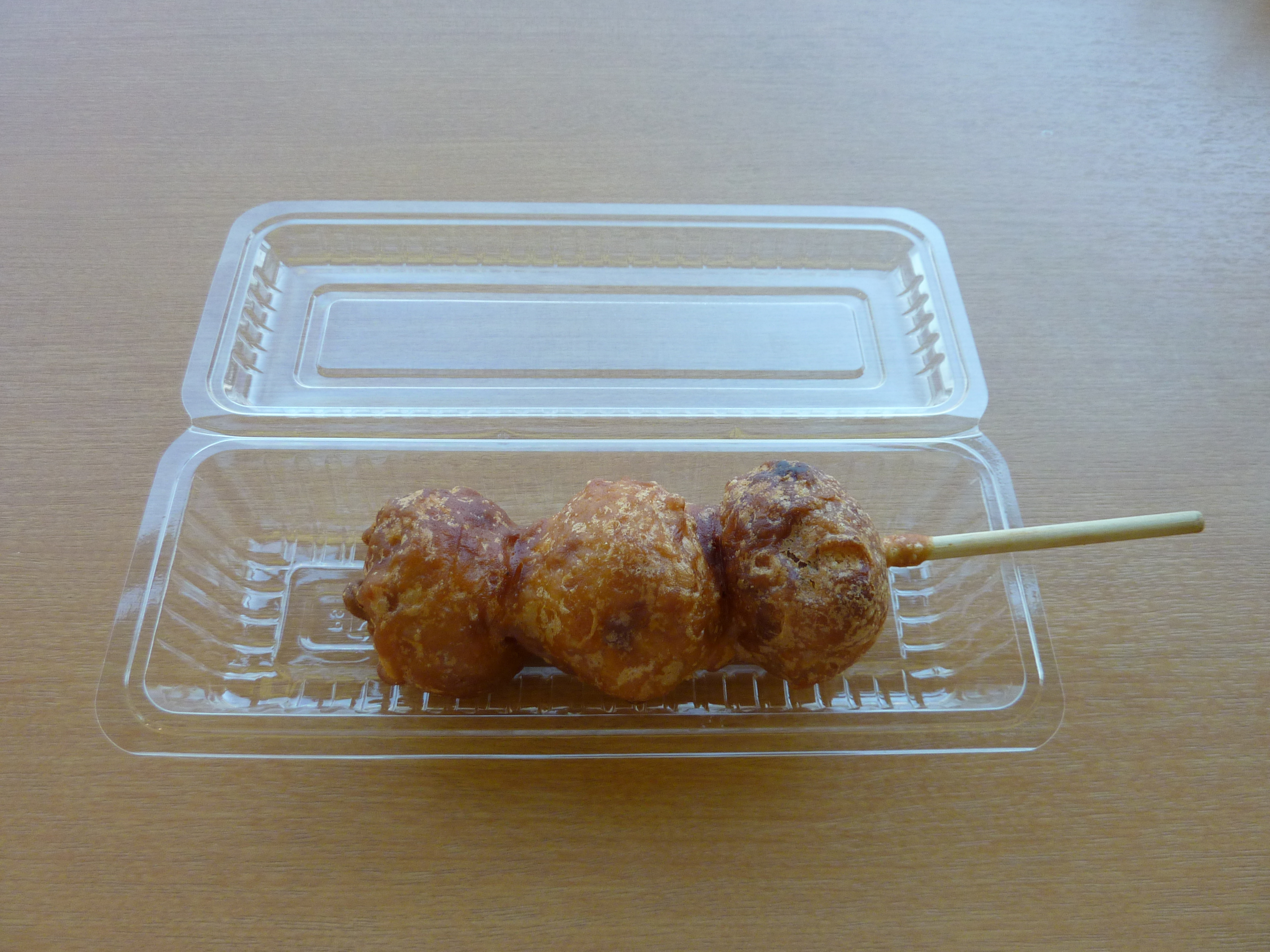 Jagabee, the deep frying food that spitted a potato, I purchase it in Otsu Service Area, Meishin Expressway.